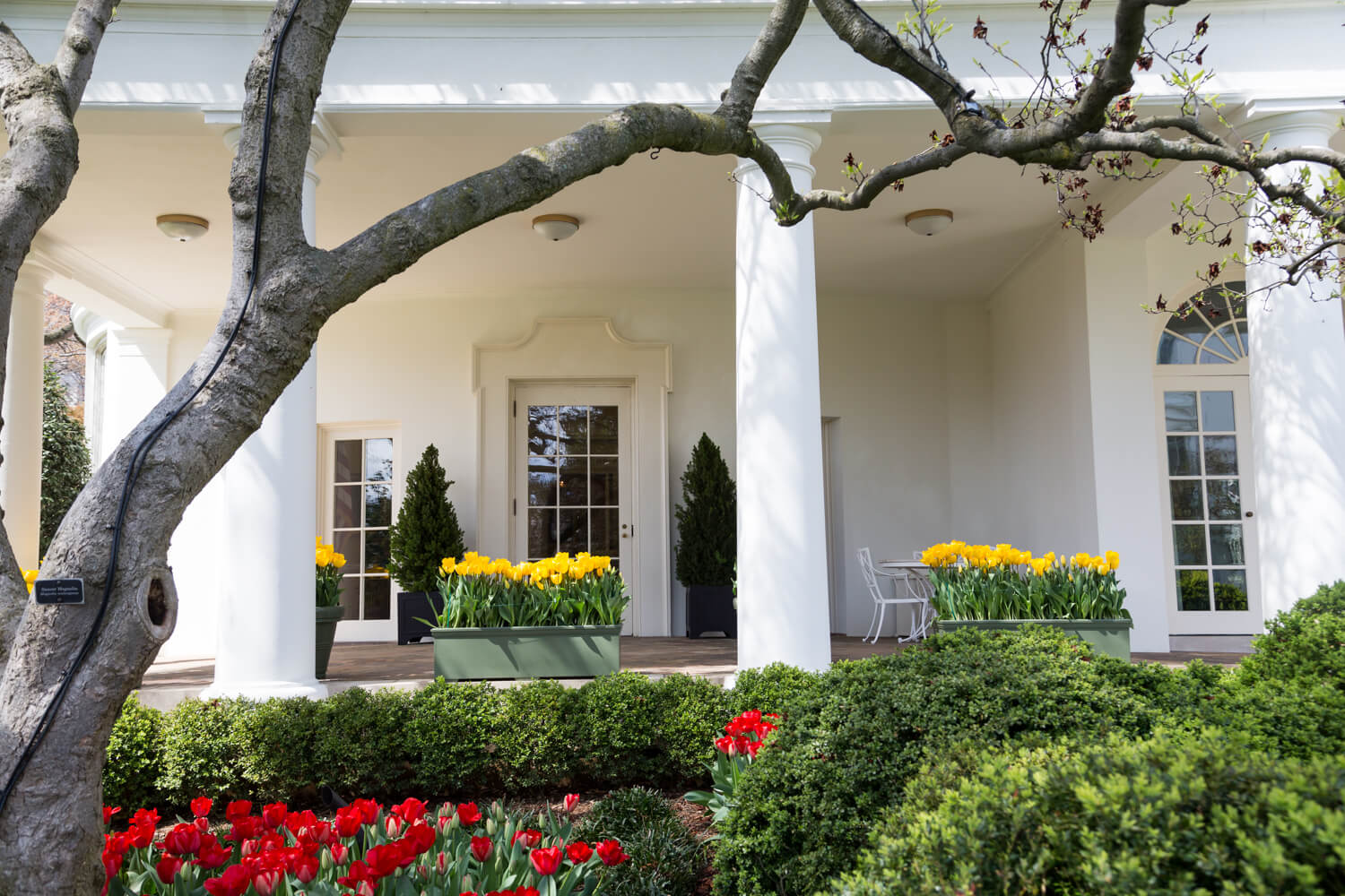 Outside the Oval Office at the White House in Washington, D.C.